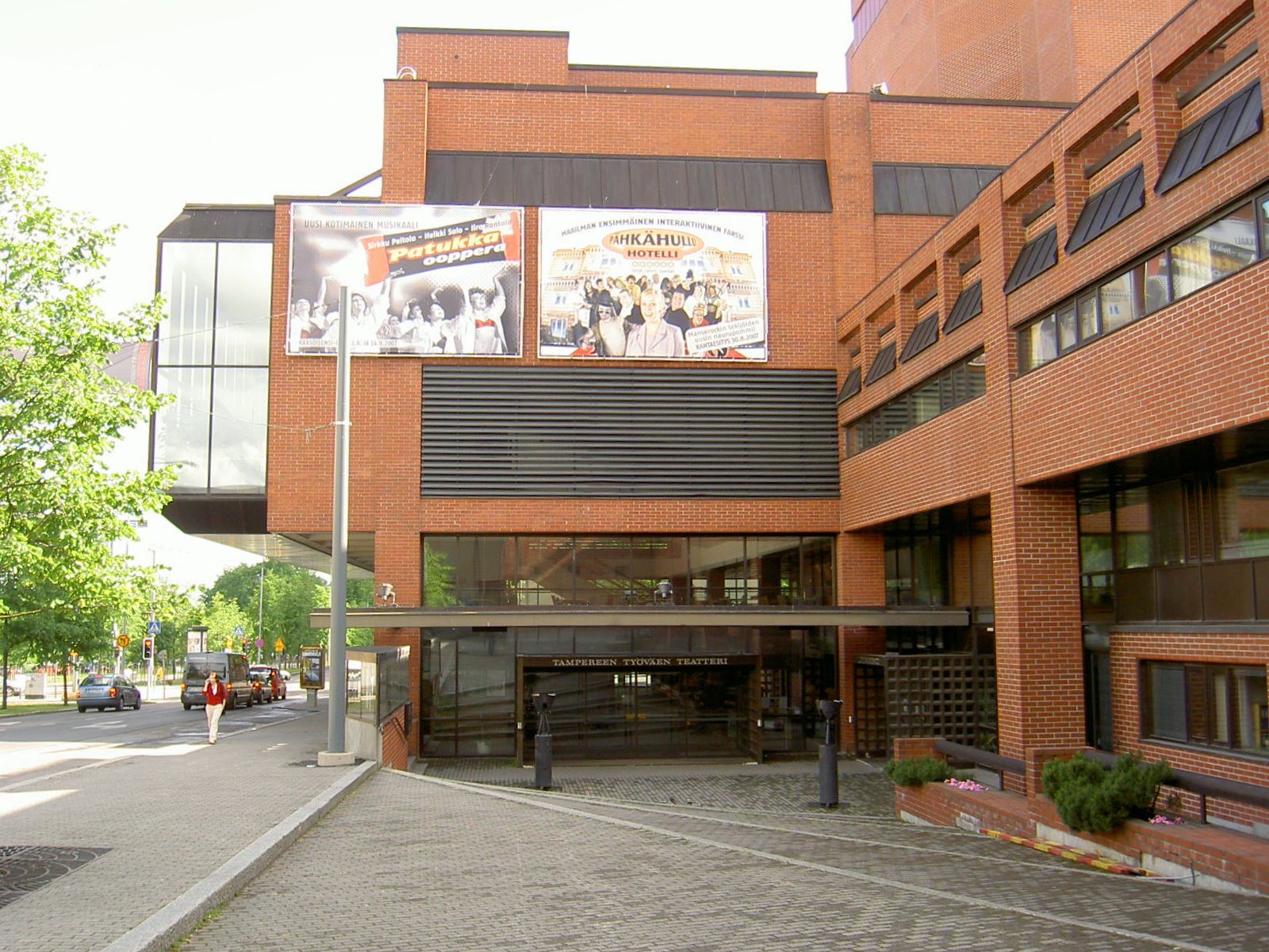 Tampere Workers Theatre (TTT-Theatre) main entrance, Tampere, Finland.